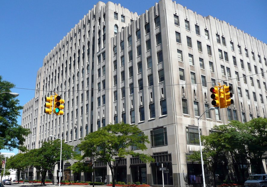 Albert Kahn Building 2009